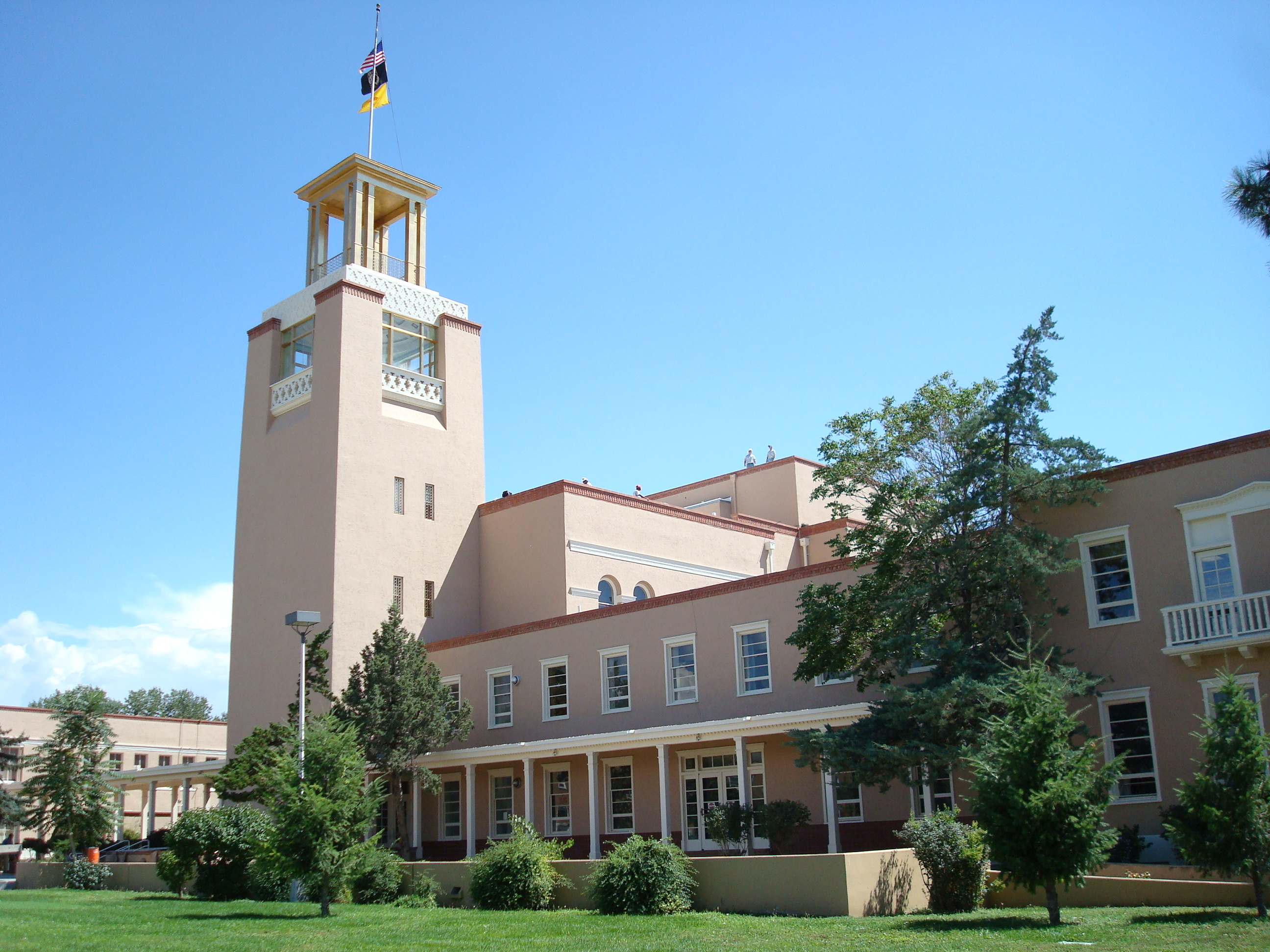 The north facing facade of the Bataan Memorial Building in Santa Fe, New Mexico